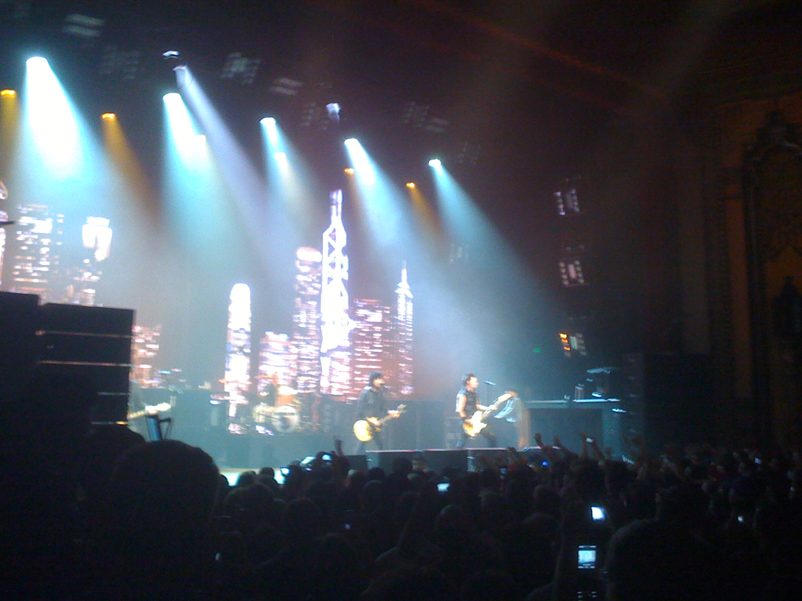 Green Day at the Fox Theater, Oakland CA, April 14, 2009 as part of the 21st Century Breakdown tour